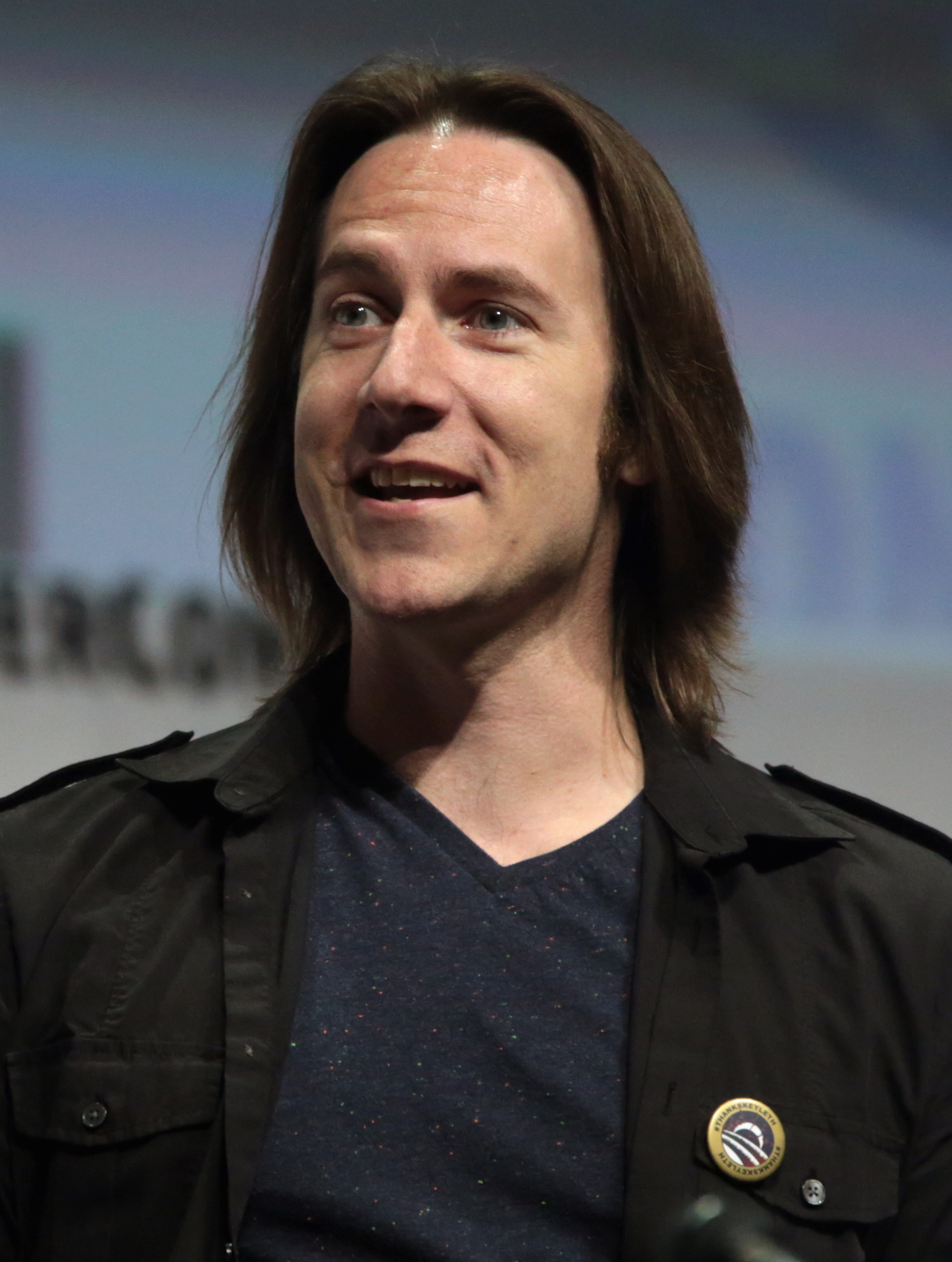 Matthew Mercer speaking at the 2017 WonderCon in Anaheim, California.